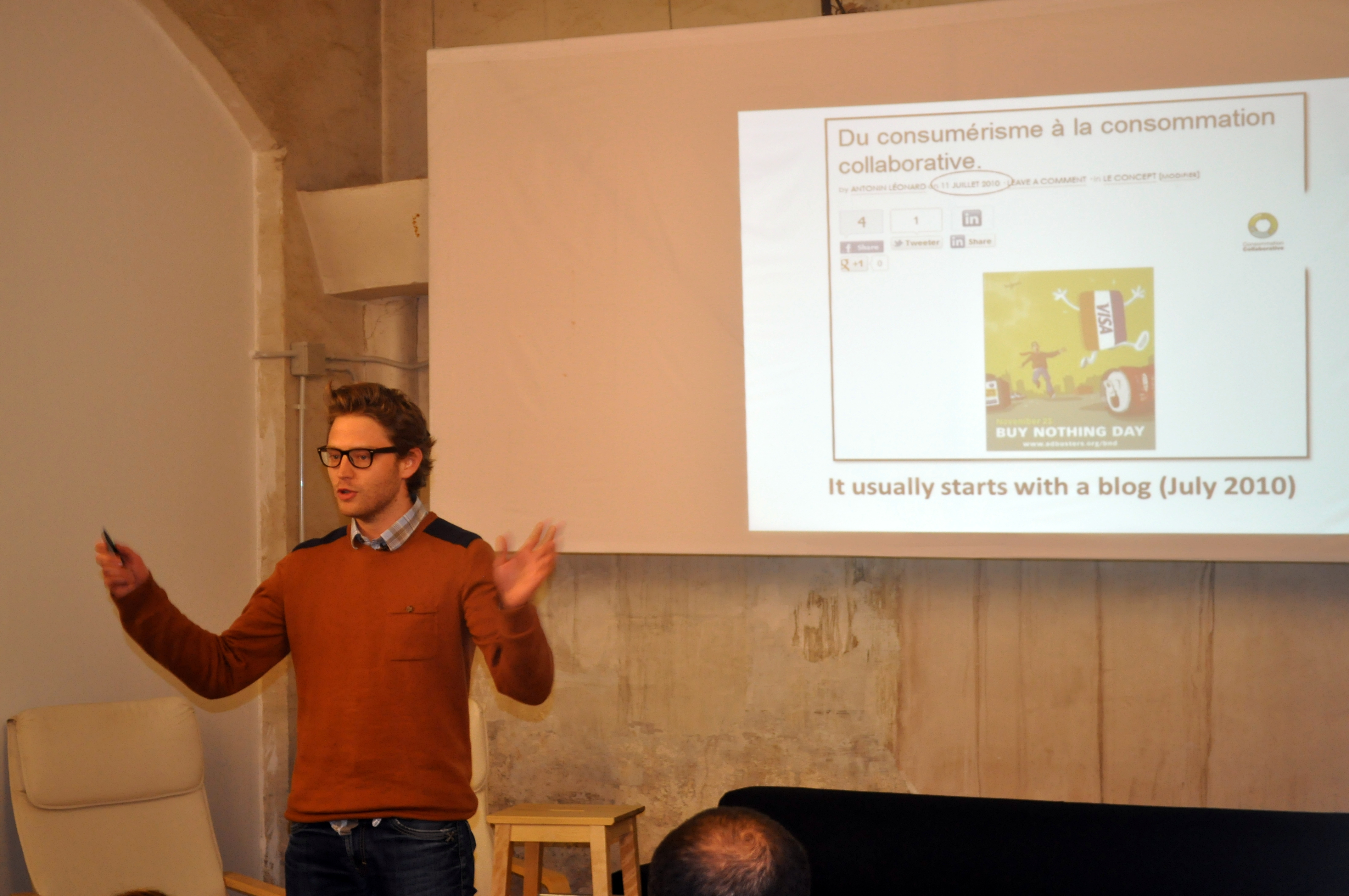 Antonin Léonard in 2014Occitan : Antonin Léonard en 2014